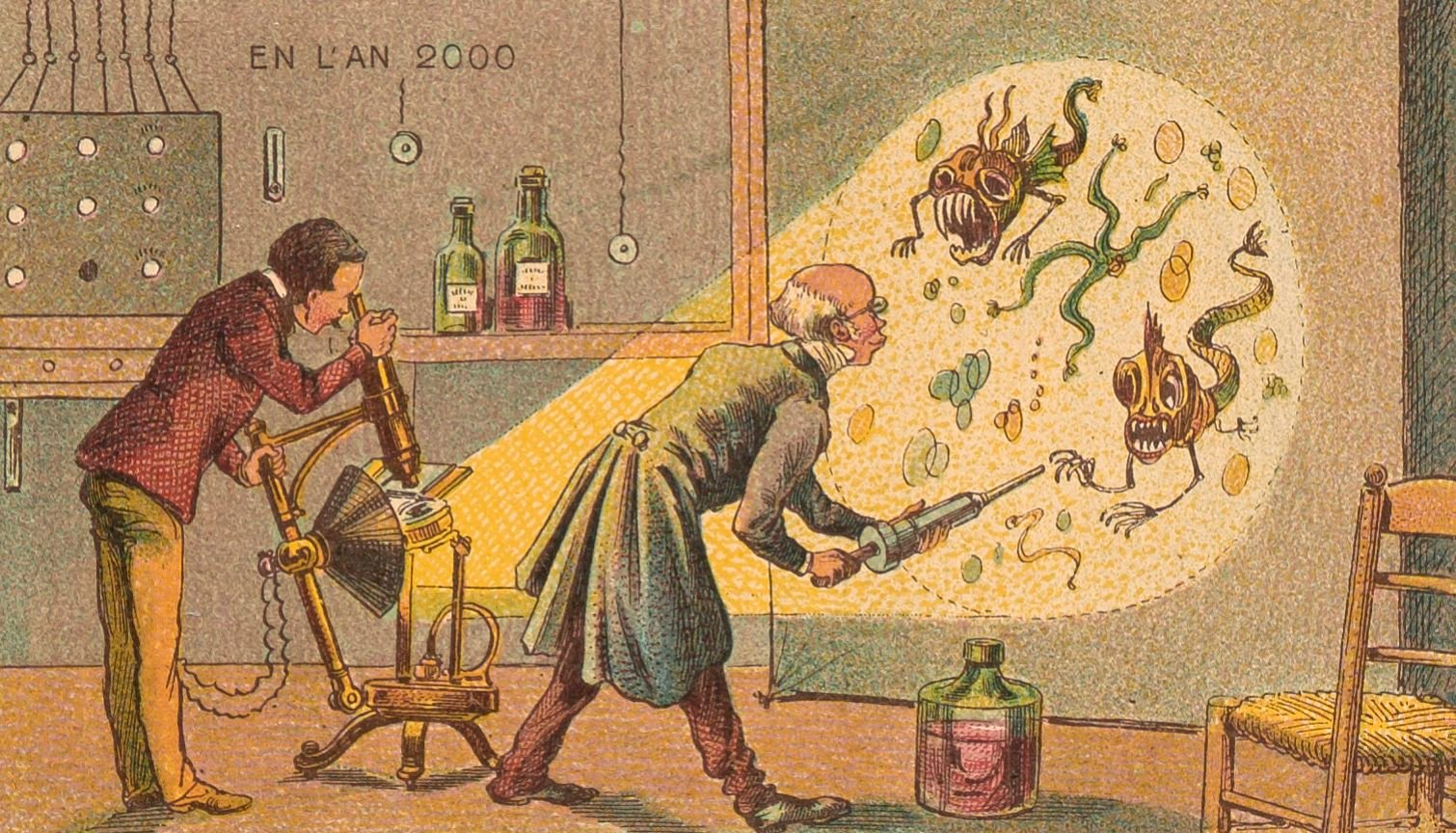 France in 2000 year (XXI century). Microbes. France, paper card.